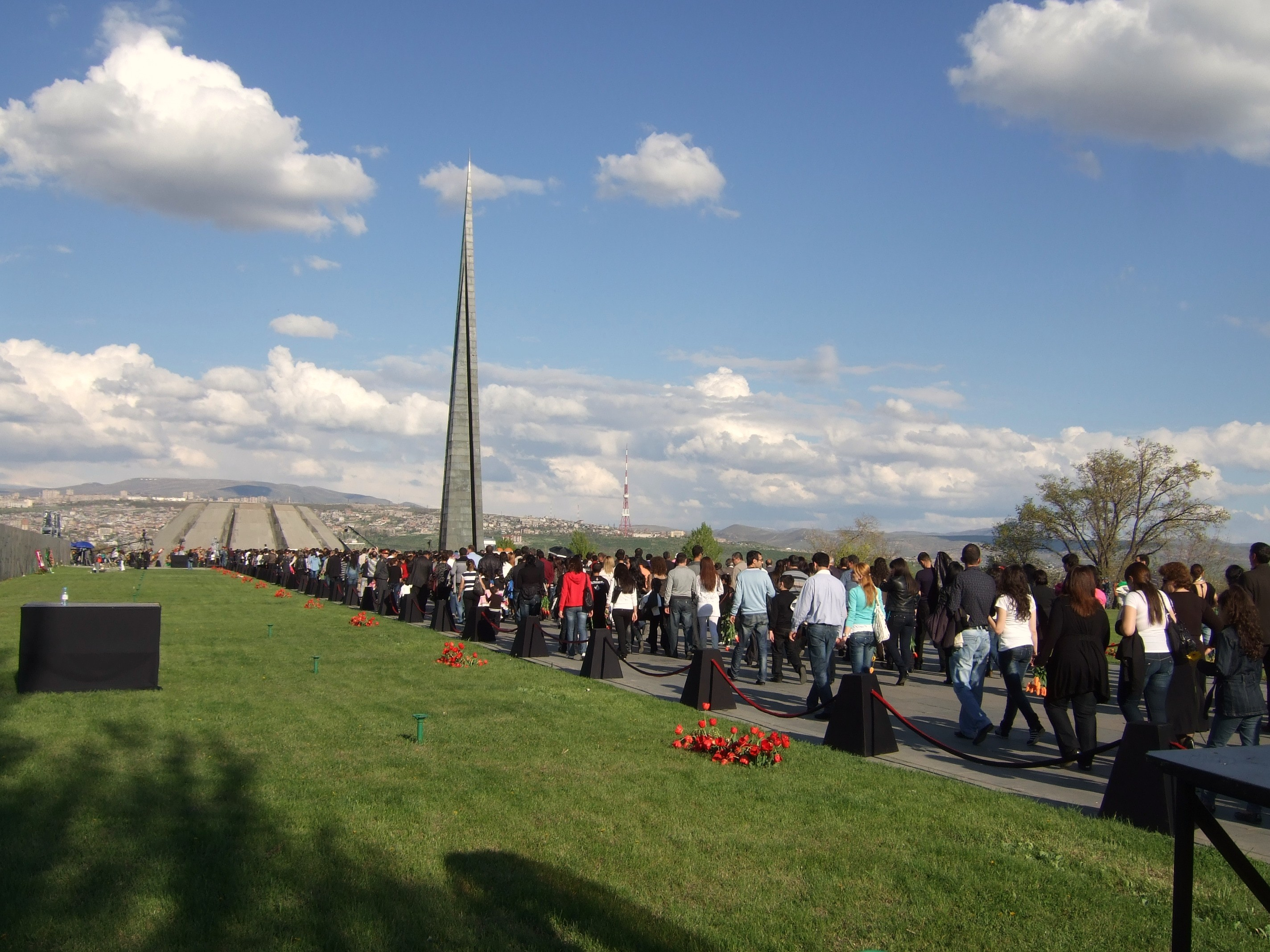 Towards Tsitsernakaberd on the Armenian Genocide Remembrance Day, April 24, 2011.